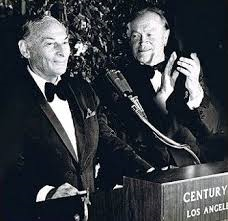 Charles Pincus, Creador carillas dentales